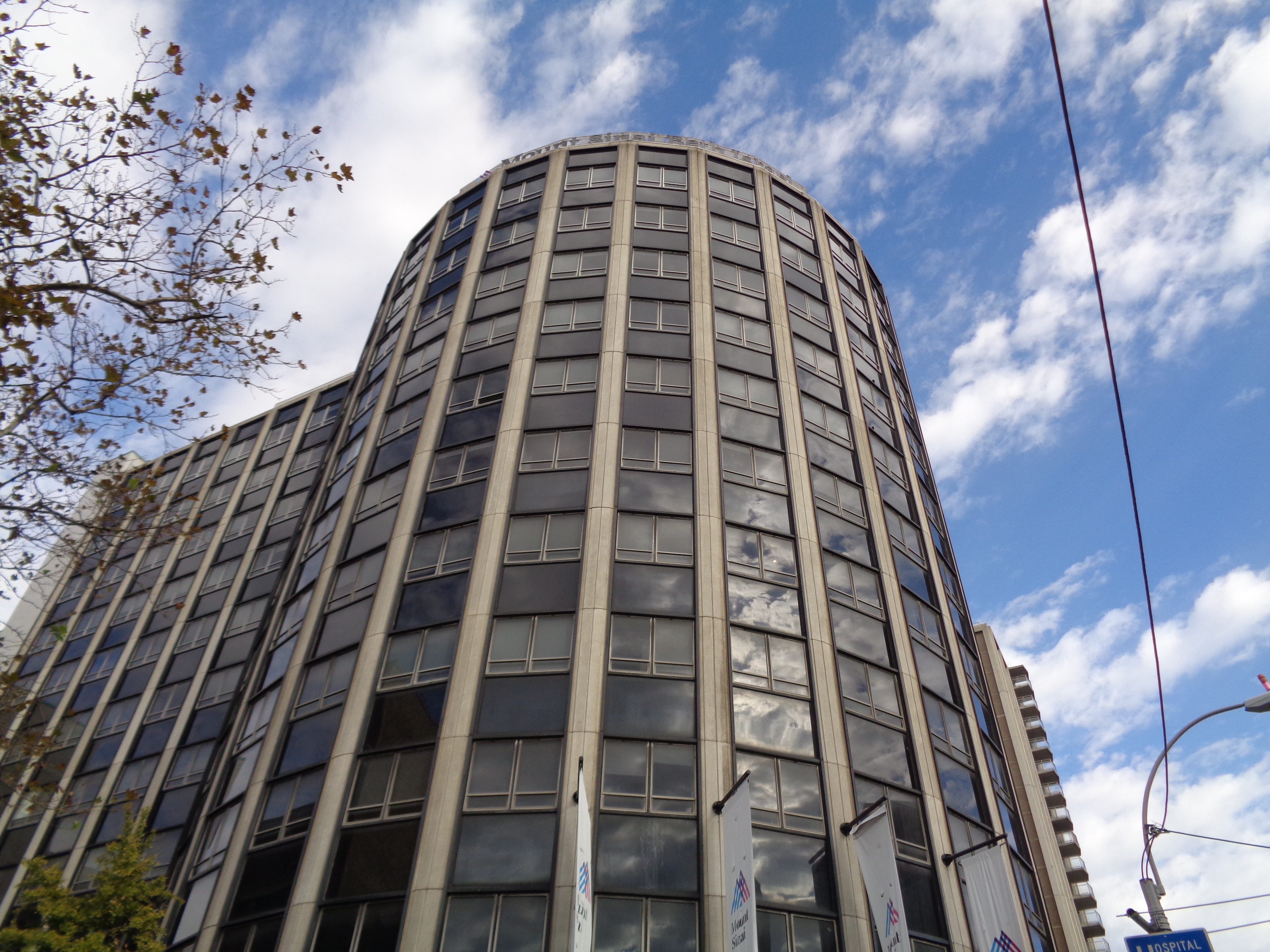 Mount Sinai Beth Israel Medical Center, formerly Beth Israel Medical Center, on East 16th Street and 1st Avenue in the Lower East Side, Manhattan.